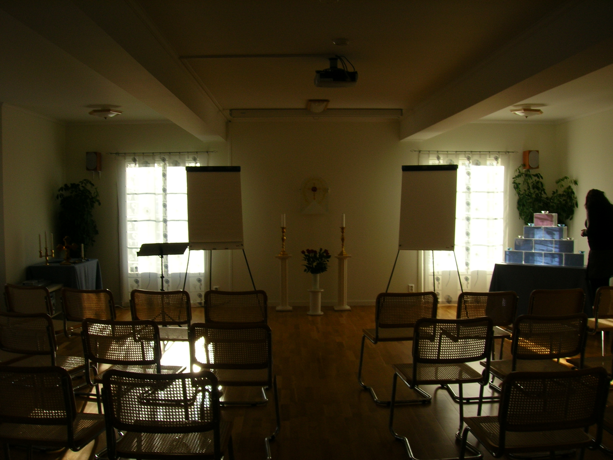 Within the lecture room «Fremtiden» (The Future) in the same building as «Ljusets Tempel» (the Temple of Light) in Onsala Sweden. The temple was inagurated by imperator Christian Bernard on September 3, 2003. The picture was taken before the initiation into the 3rd Temple Degree, the section of the Initiated, AMORC, on 27 January 2007. Photo with a Nikon Coolpix 5600 5,1 Megapixel camera.